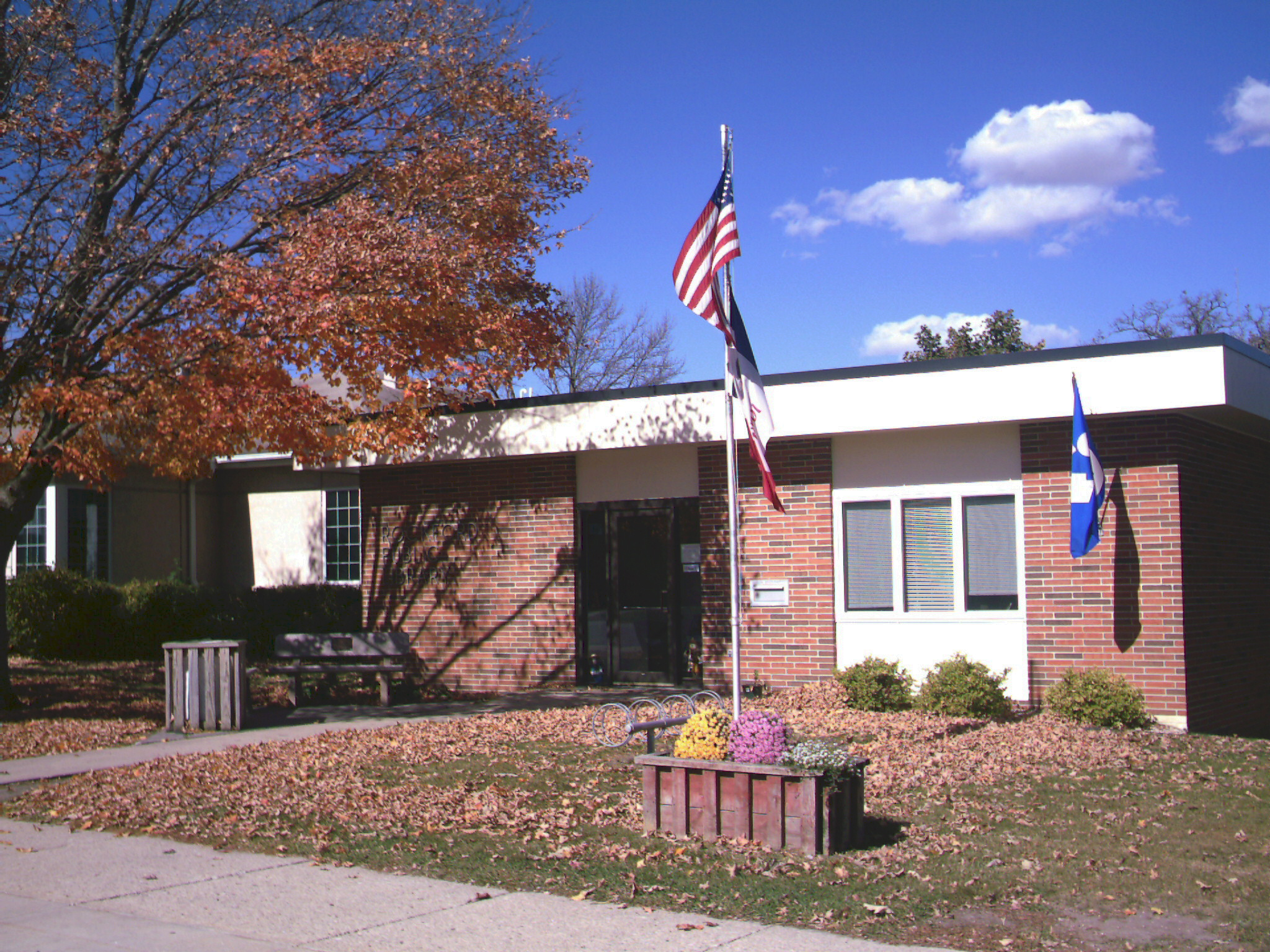 Photo of the front of the front of the Rockford, IA public library building